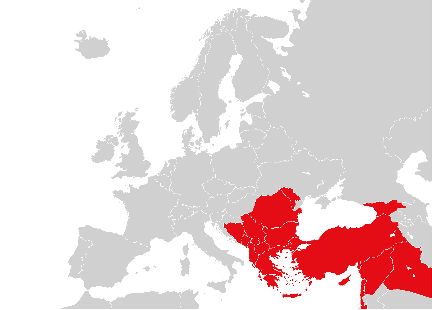 Map of traditional areas of Turkish settelment.